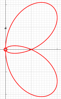 Image of a tacnode at the origin of the curve defined by (x2+y2 −3x)2−4x2(2−x)=0, made by myself.